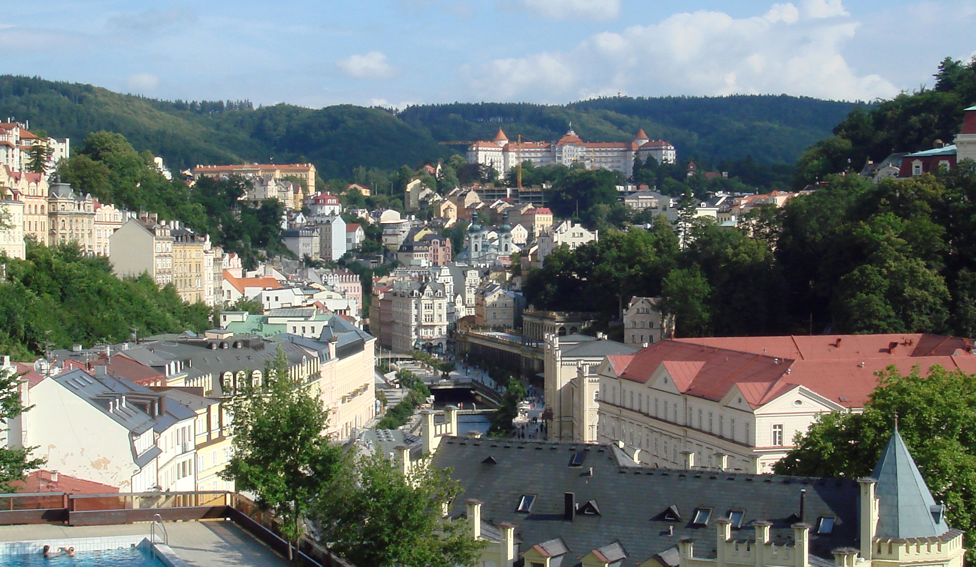 Karlovy Vary, Czech Republic. Photo views the Hotel Imperial on the top of the hill in the background.